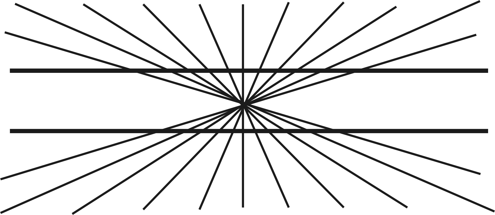 Geometrical-optical illusion of rectilinearity: the Hering illusion